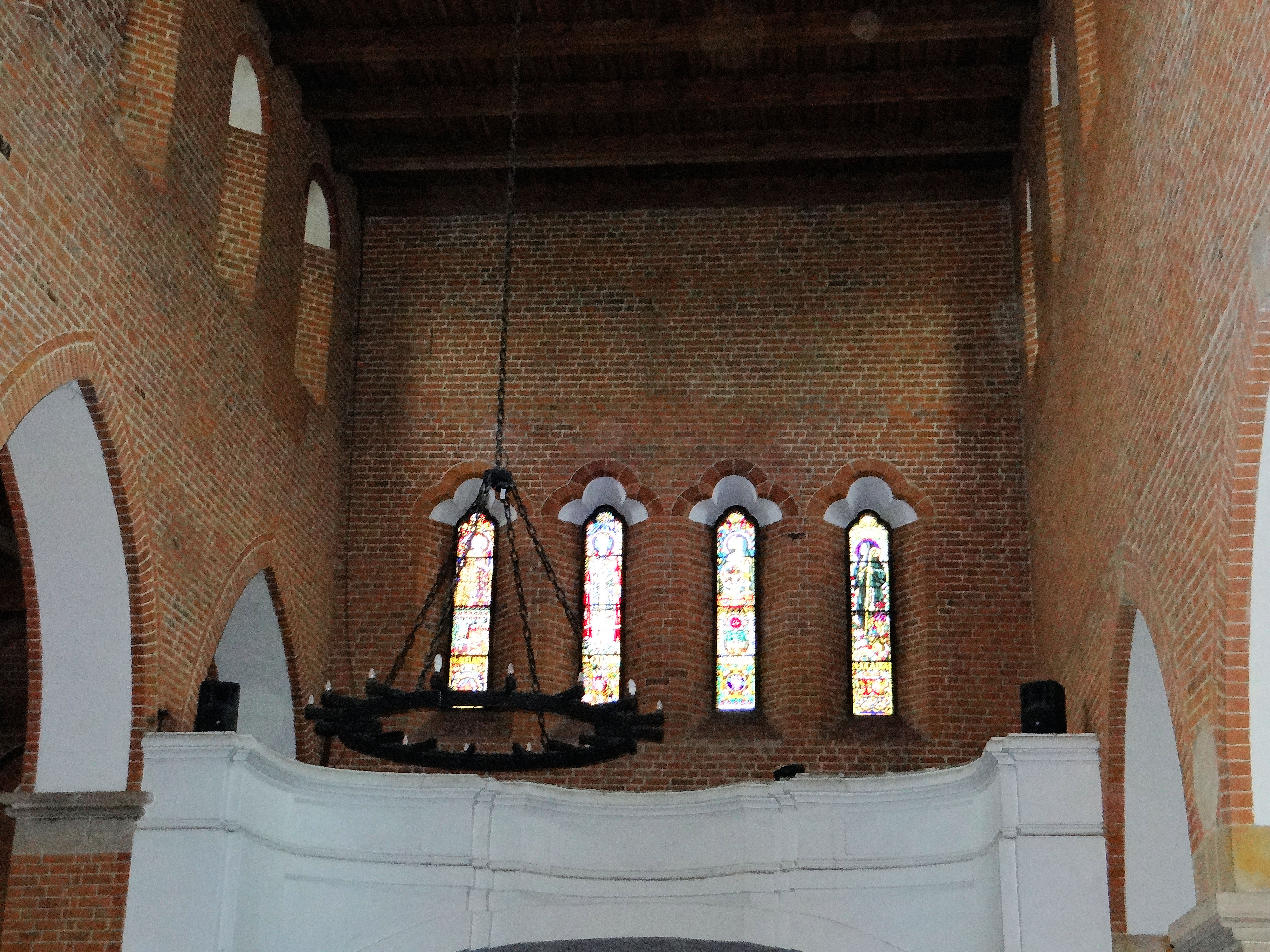 Choir of the Rosary of Saint James church in Sandomierz